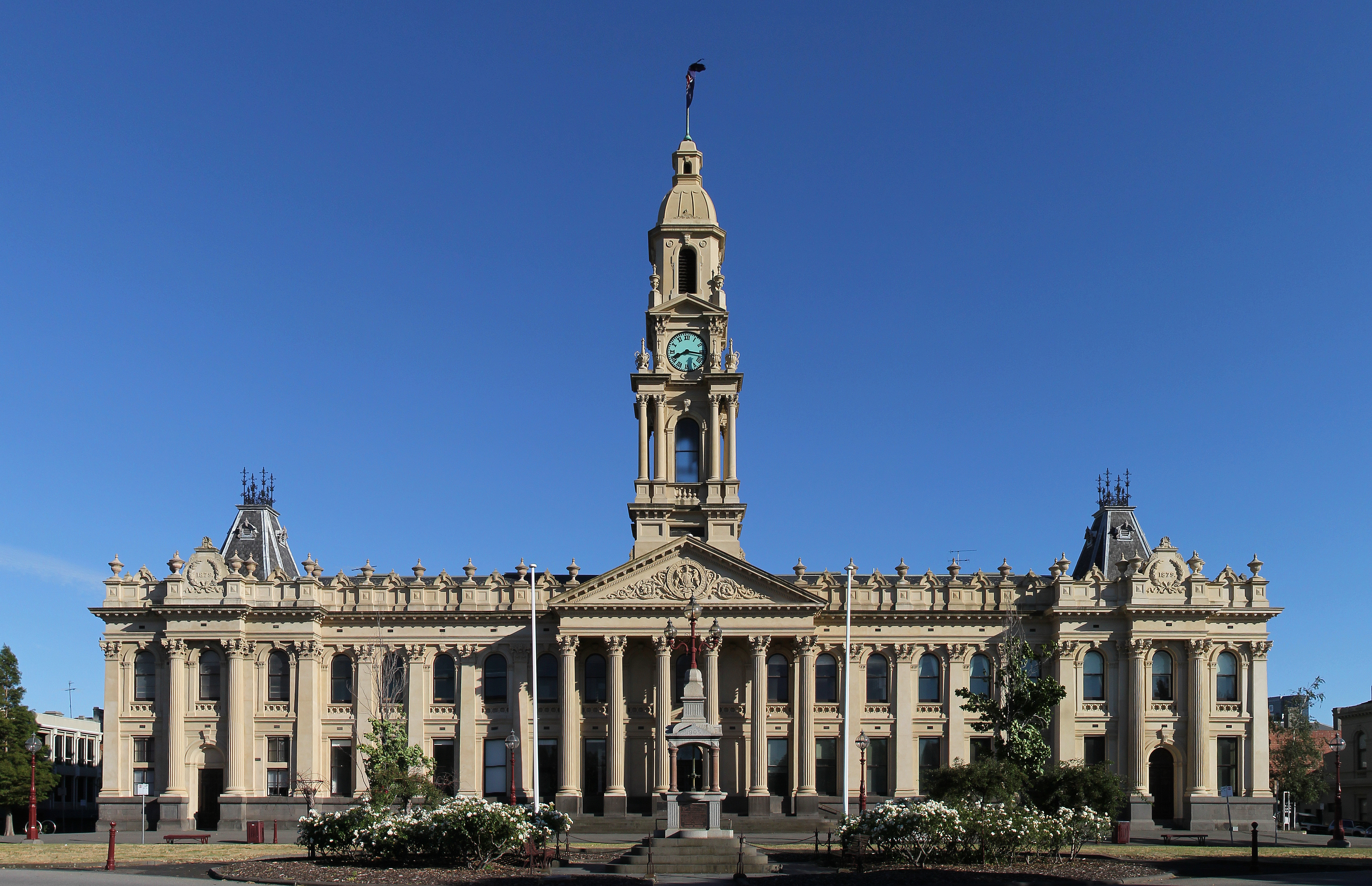 South Melbourne Townhall.